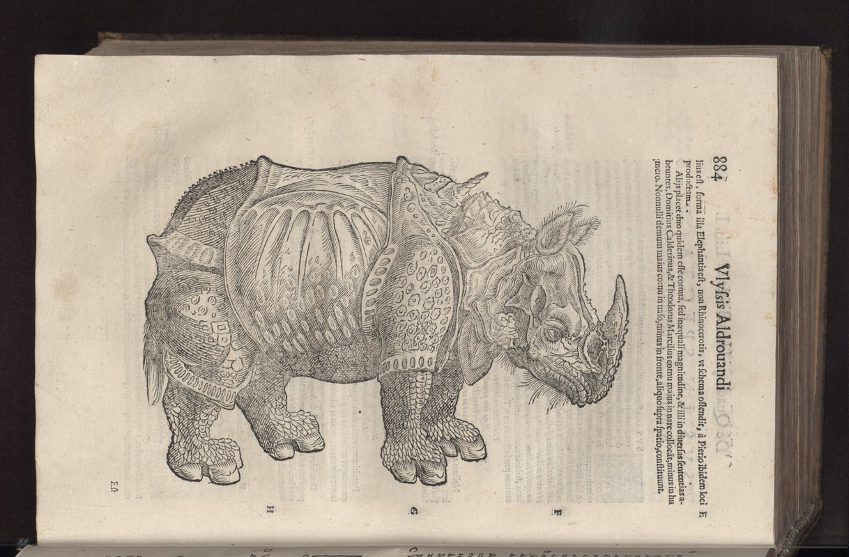 Illustration of a rhino in "Quadrupedum omnium bisulcorum historia. Ioannes Cornelius Vteruerius Belga colligere incaepit. Thomas Dempsterus Baro a Muresk Scotus i.c. perfecte absoluit. Hieronymus Tamburinus in lucem edidit ... Cum indice copiosissimo", from Ulisse Aldrovandi, 1621. The illustration is copied by Dürer.